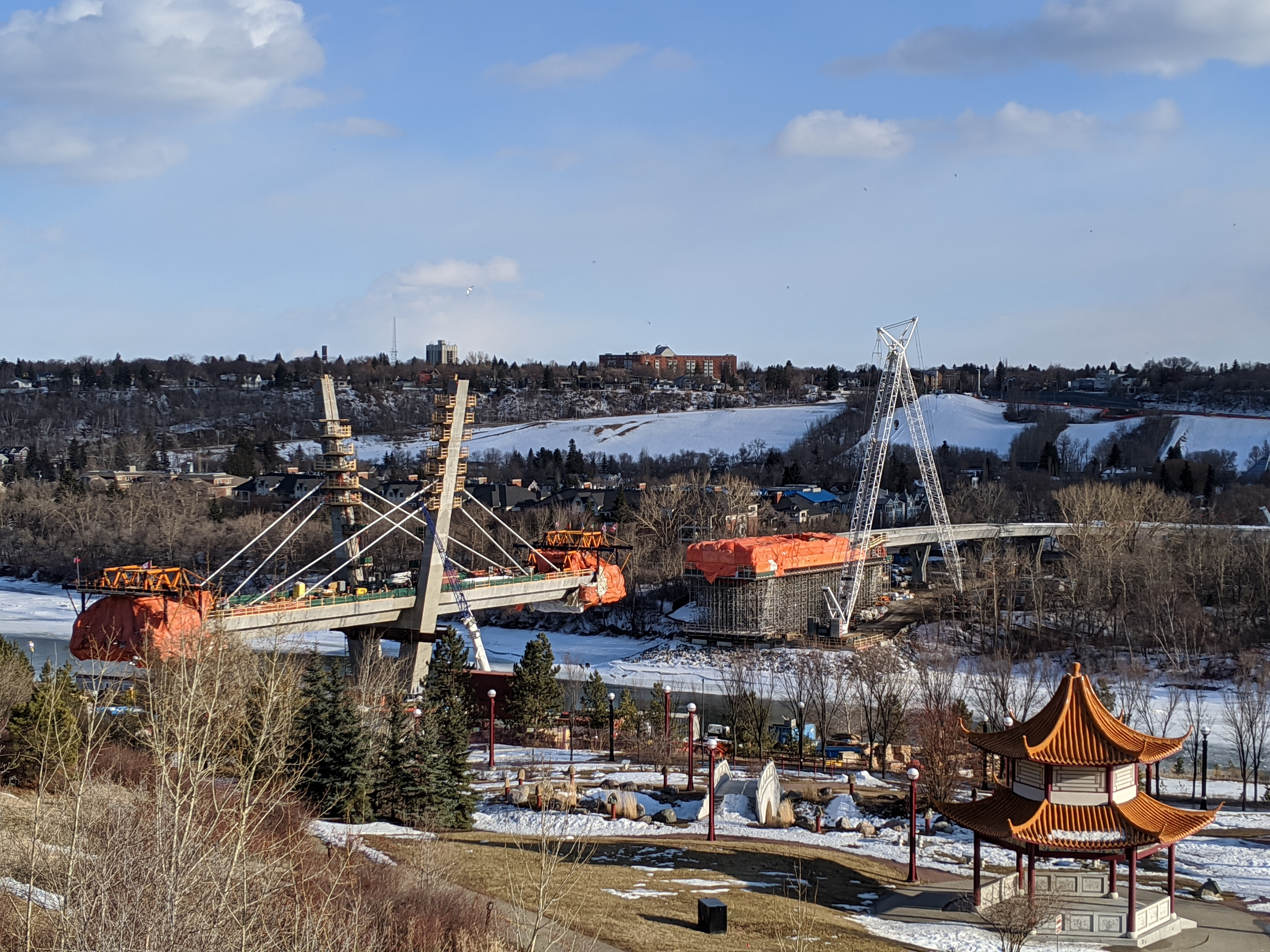 Tawatinâ Bridge under construction in Edmonton, April 2020